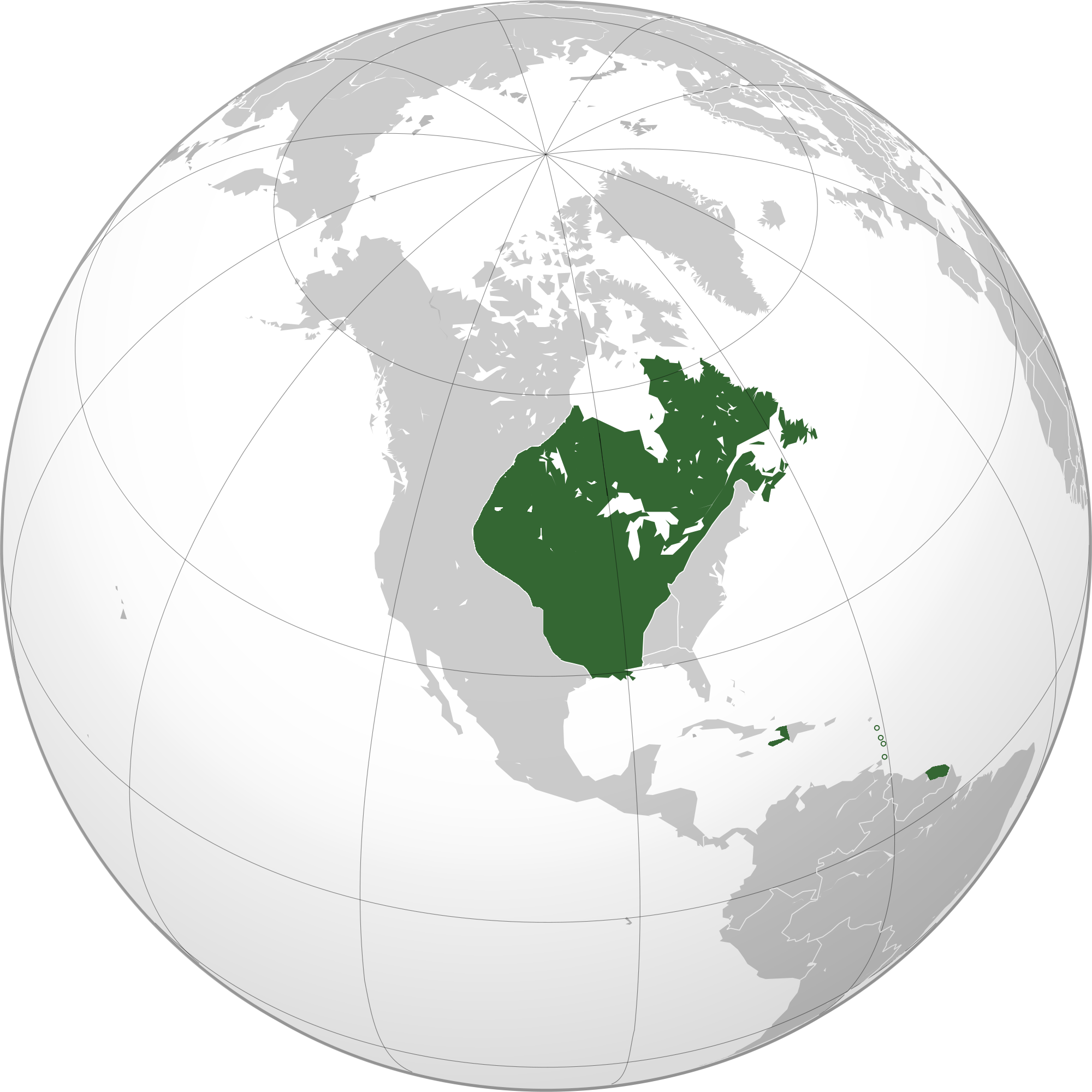 Map of New France